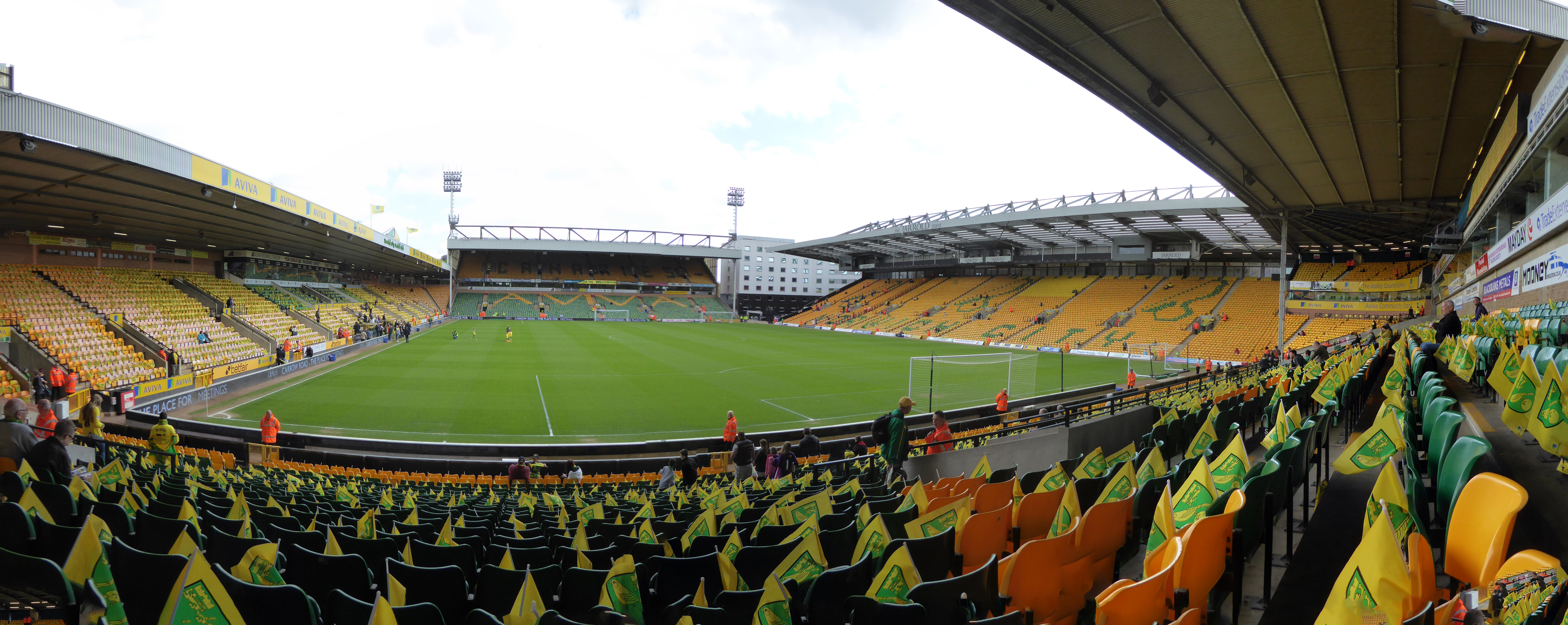 a panorama of Carrow Road